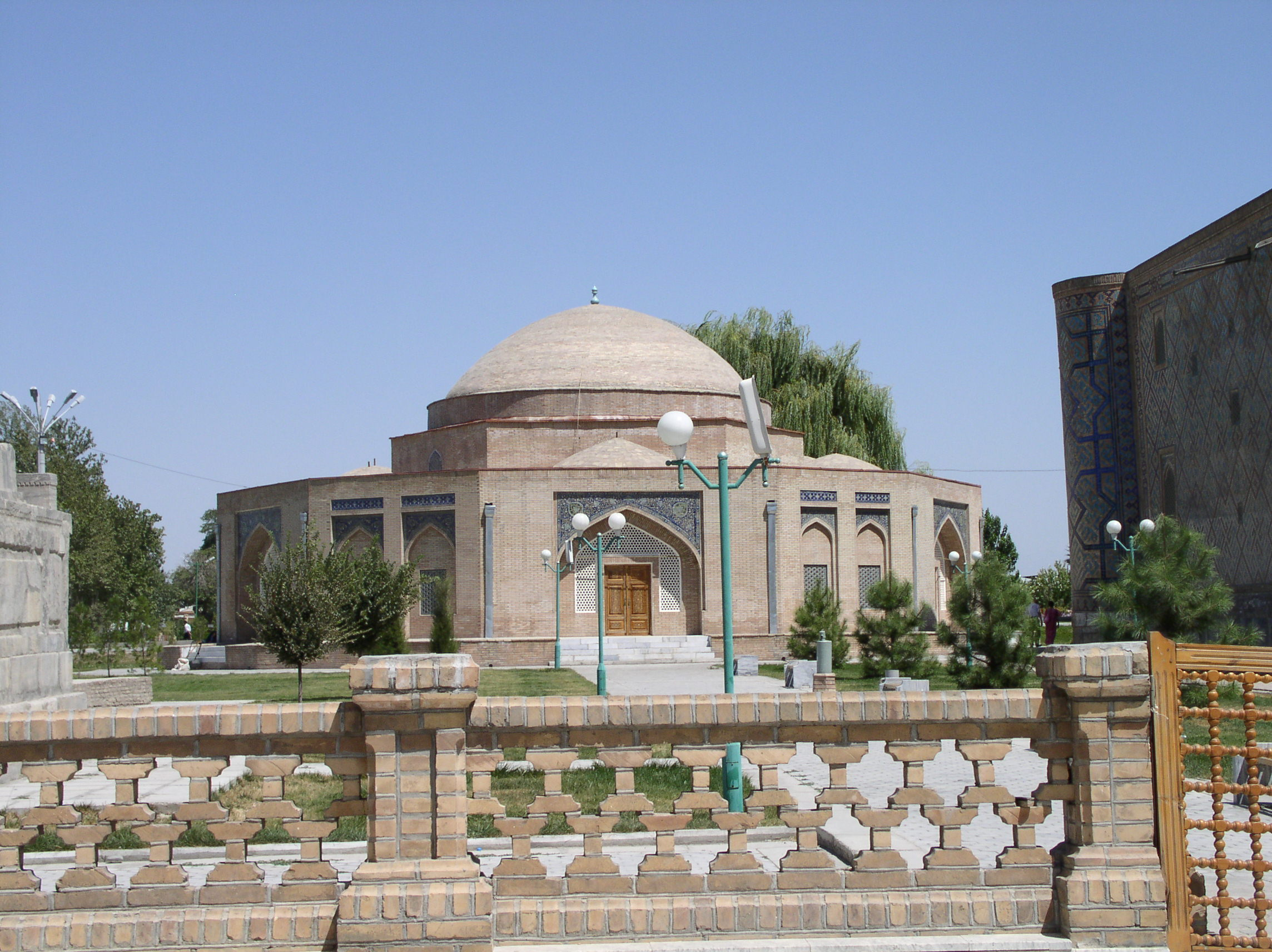 Chorsu building, Samarqand, Uzbekistan